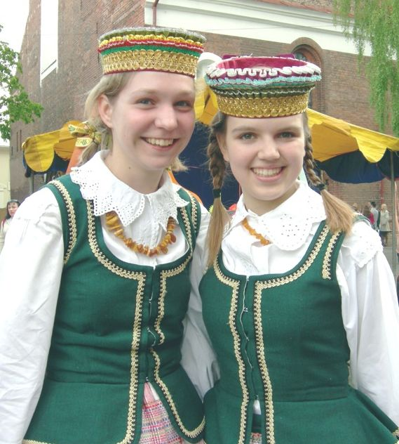 Young girls wearing traditional Lithuanian headdresses during a celebration in Kaunas.